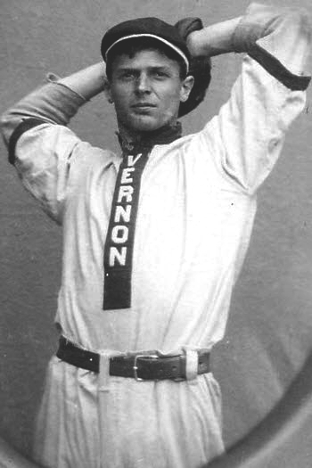 Major League Baseball player Al Carson